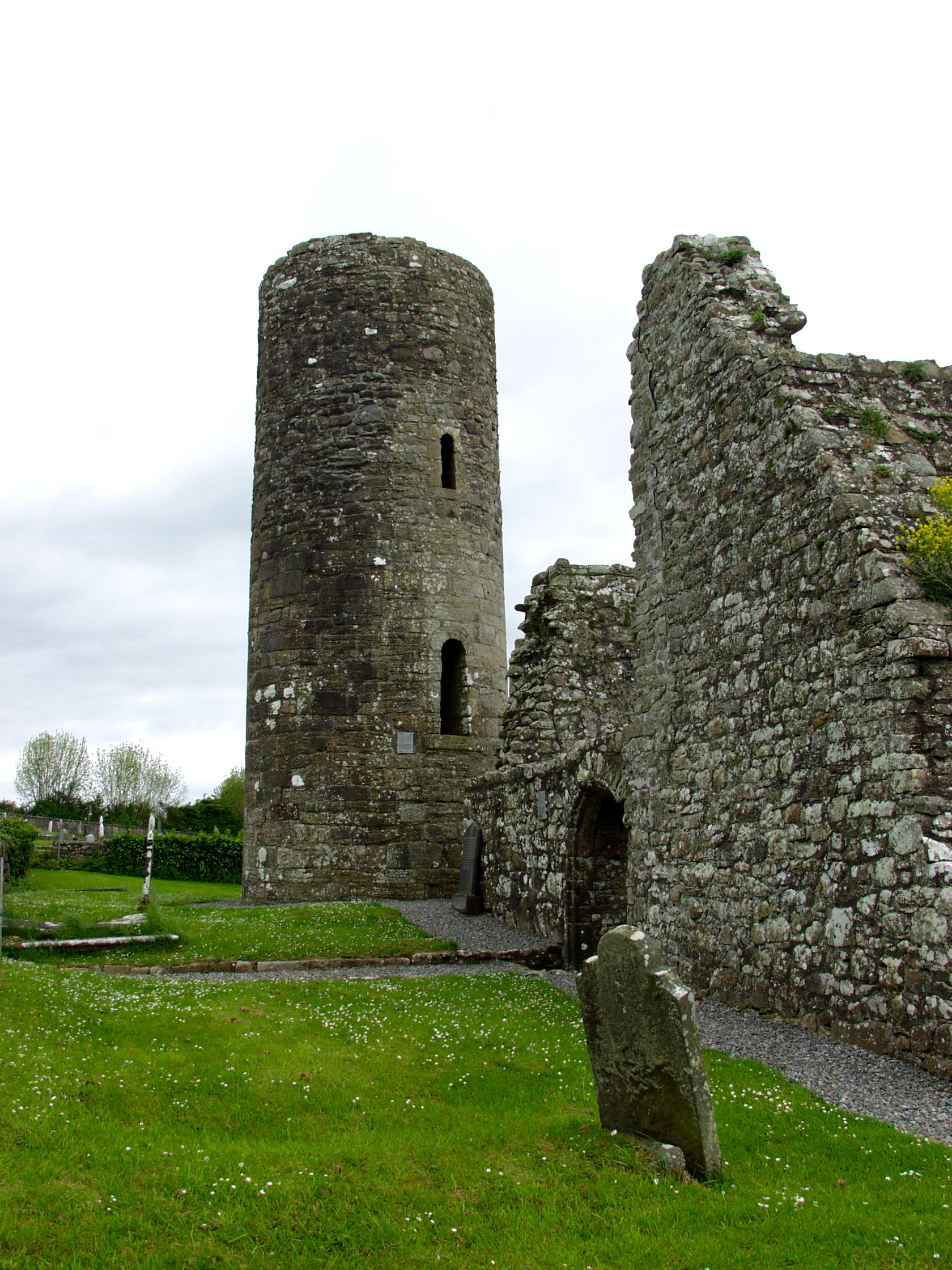 Drumlane. Ruins of round tower and church.